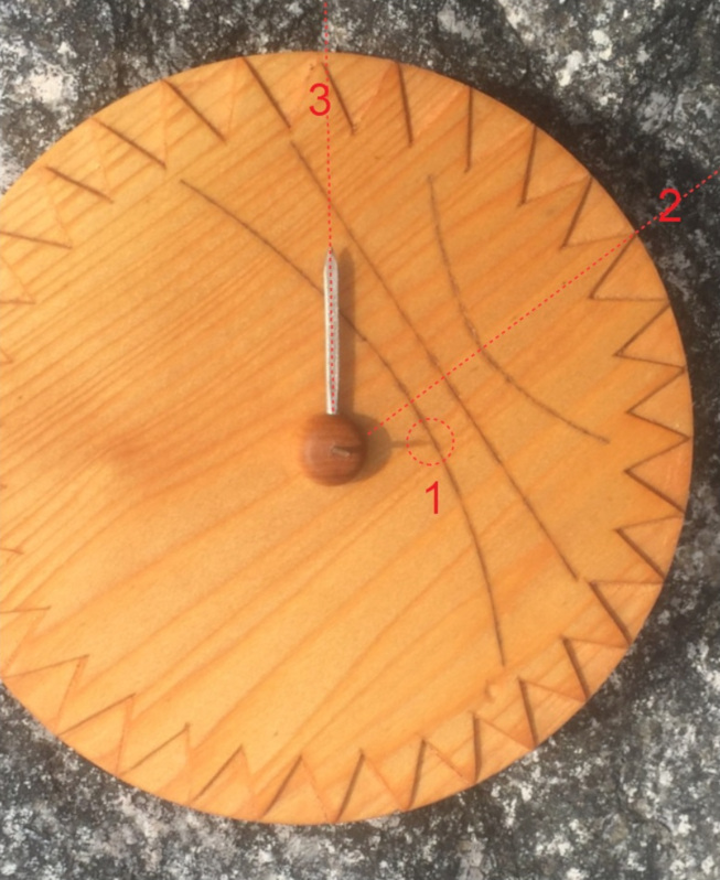 Modern speculative replica of the Uunartoq disc, showing gnomonic lines and gnomonic pin shadow used to plot a course of Northwest by North.